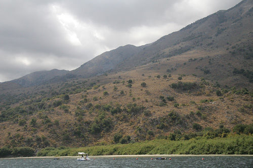 The largest--if not the only--freshwater lake in Crete. Although the picture does not do it much justice, the water was extremely clear at its shallower parts. Some say the water can even be drank without consequence.